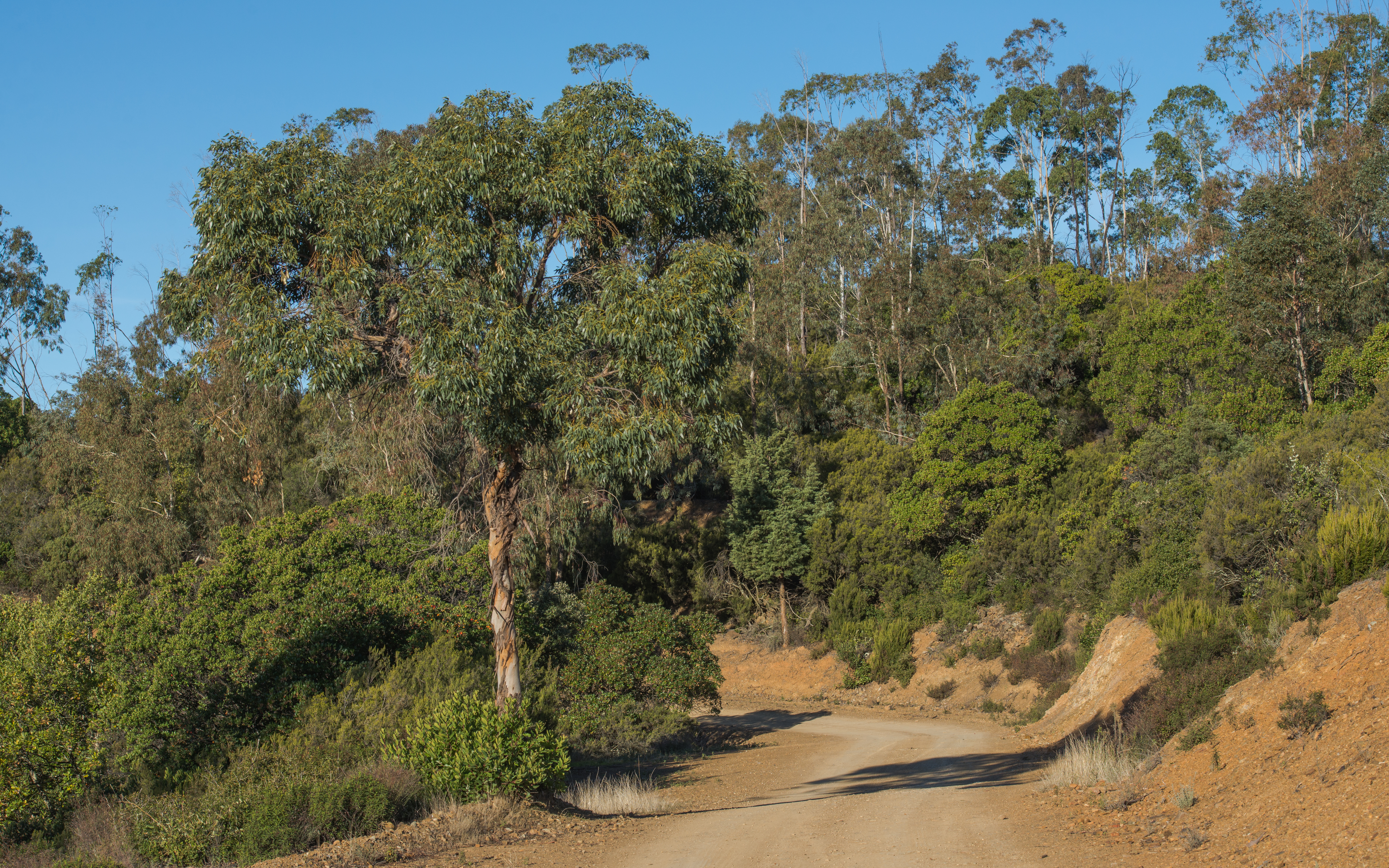 Eucalyptus gunnii forest, introduced here at the end of the years 50. Cessenon-sur-Orb, Hérault, France.